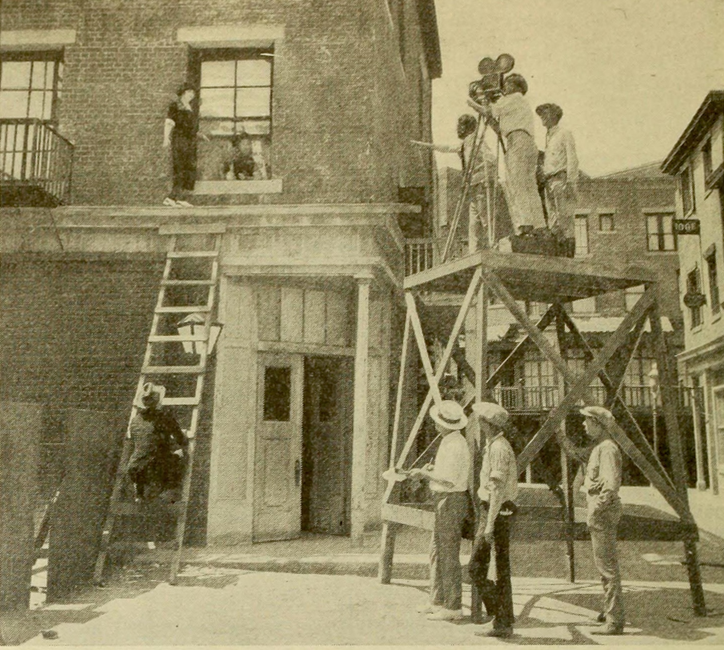 Still from the production of the American film serial Terror Trail (1921) with Eileen Sedgwick on the window ledge, on page 94 of the January 1922 Photoplay.